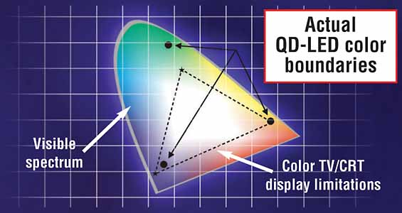 QD-LED color boudaries.